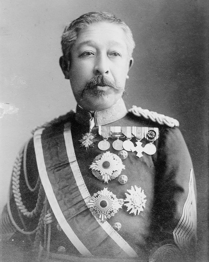 Fushimi Sadanaru, c. 1910-15